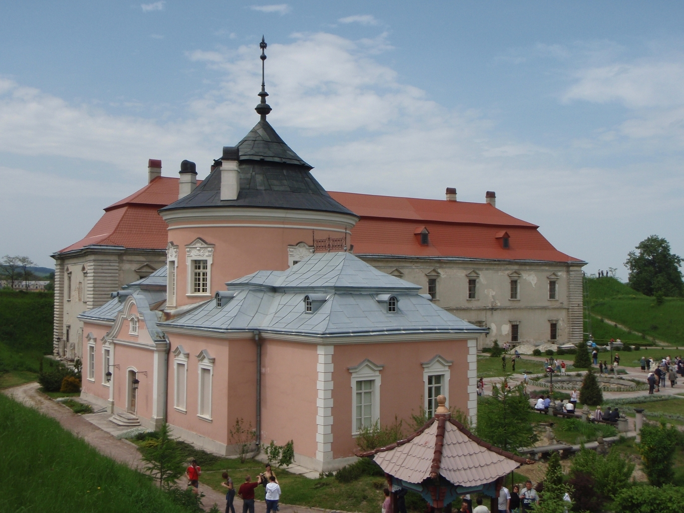 Chinese House of Zolochiv castle, Lviv Region, Ukraine.